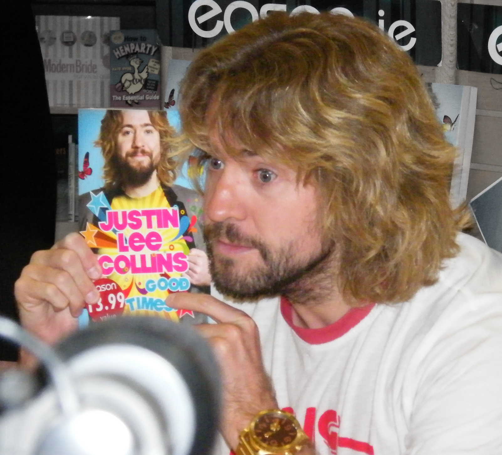 "Justin Lee Collins signing his book" (cropped and modified version of original image; see below for changes)